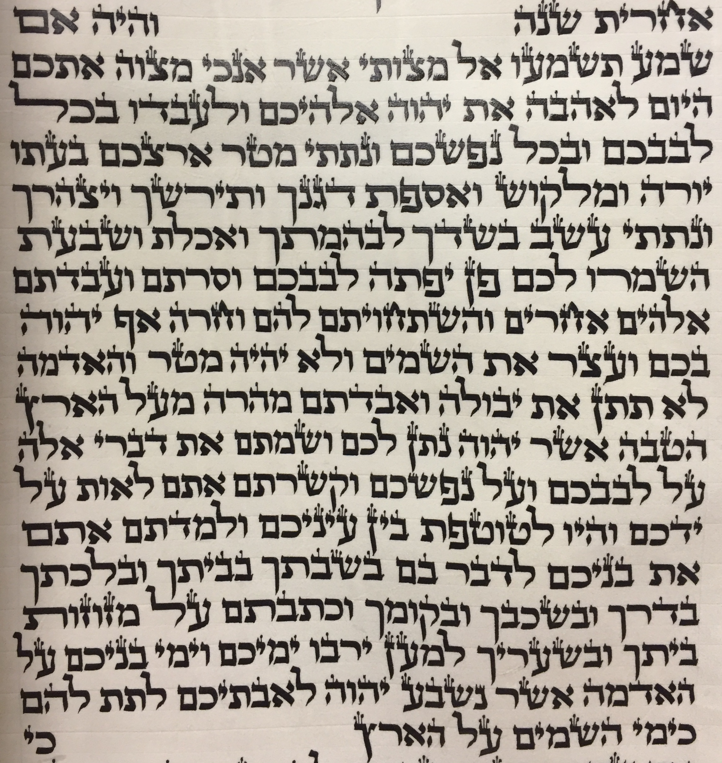 The second paragraph of Shema Yisrael